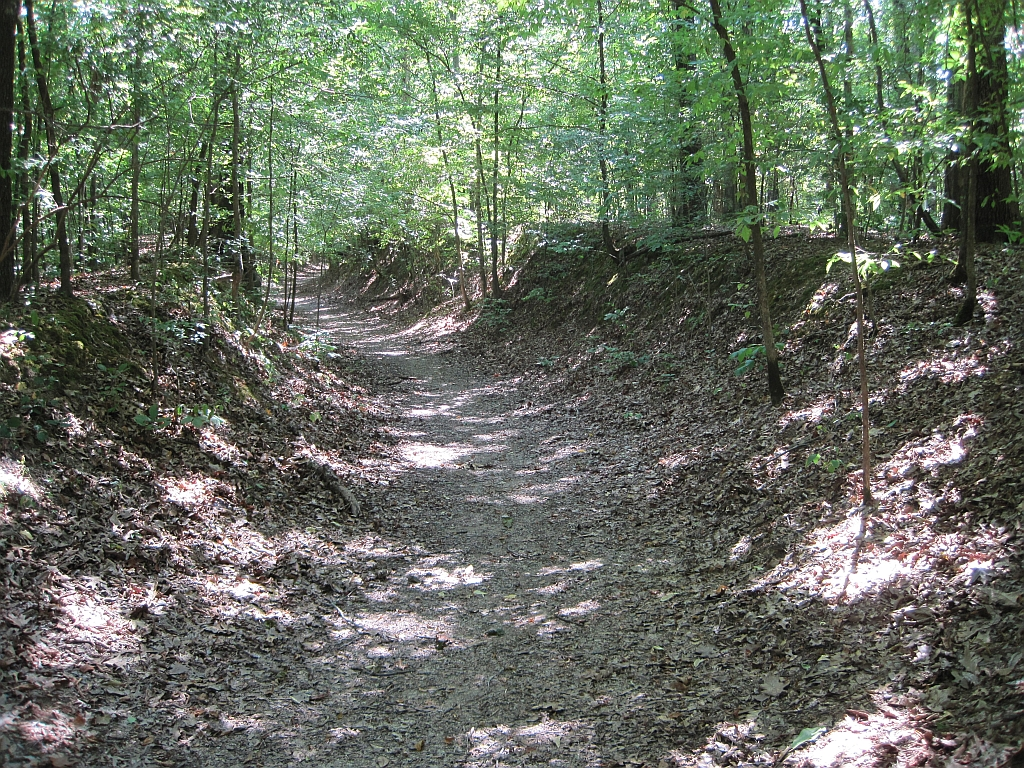 Trail of Tears — intact portion concurring with the Old Military Road. In Village Creek State Park, south of Wynne, Arkansas.